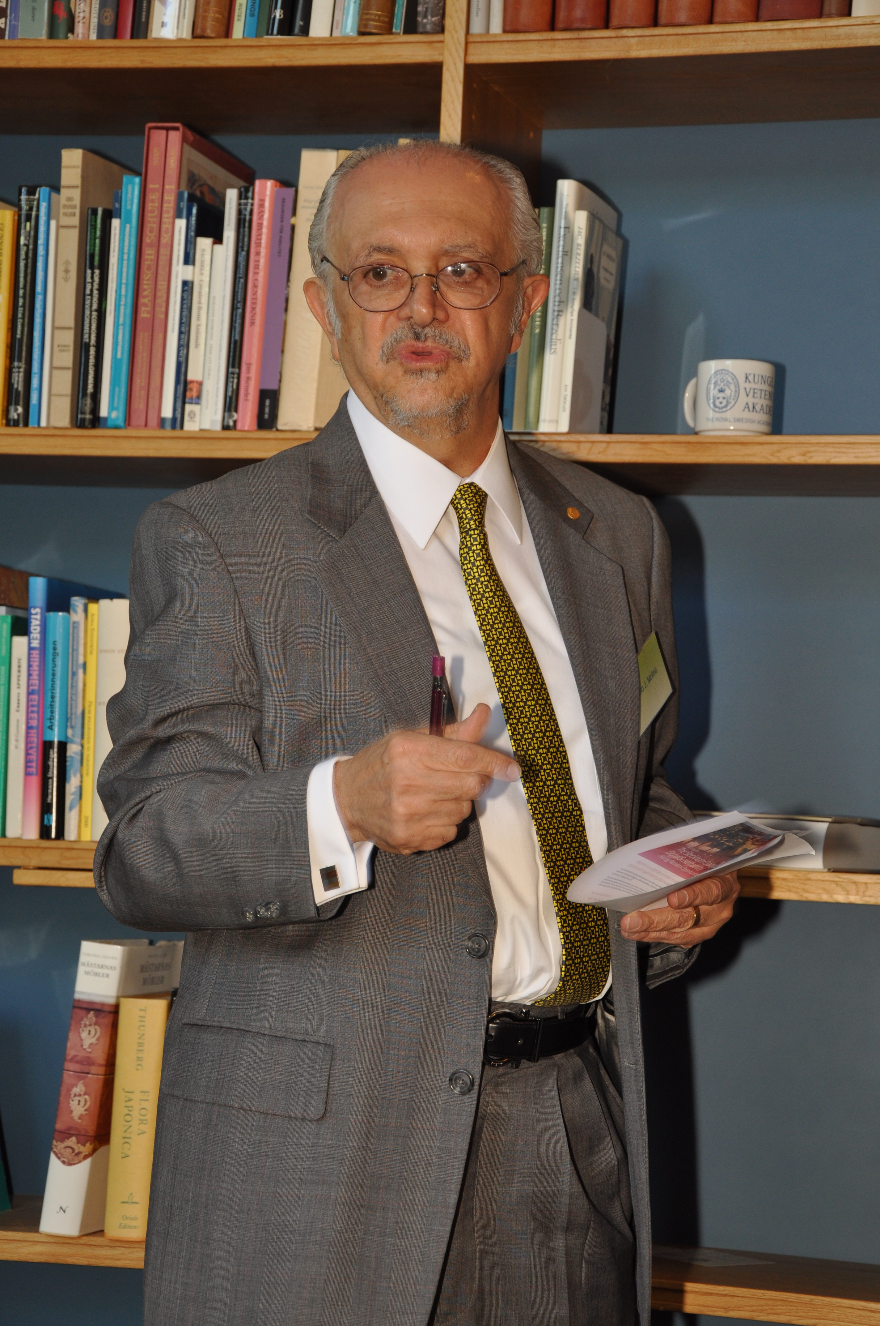 Mario Molina, at the Nobel Laurate Globalsymposium 2011, at Vetenskapsakademien in Stockholm, discussing climate change